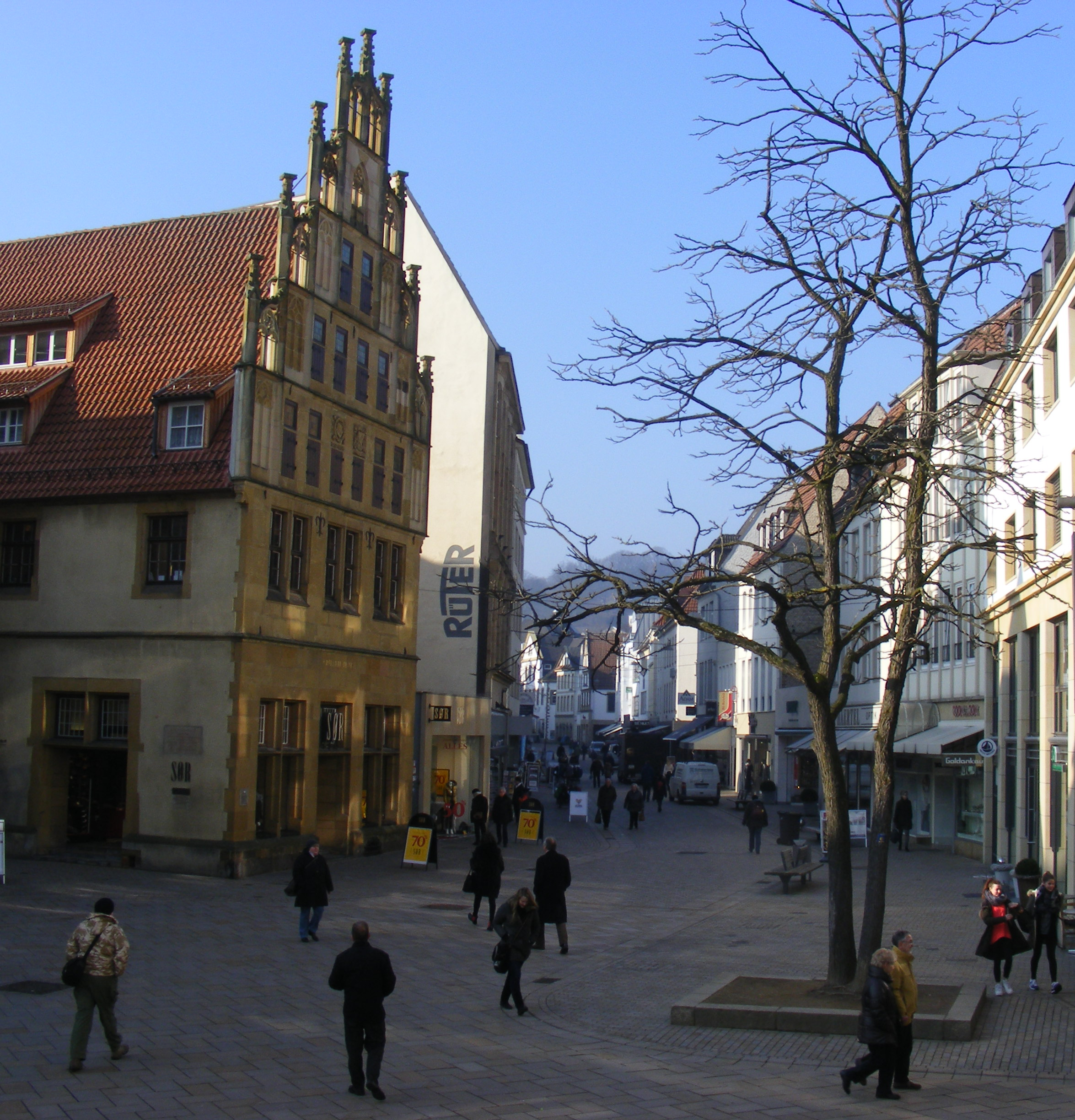 Obernstraße in Bielefeld, seen from the stairs in front of Theater am ALten Marekt